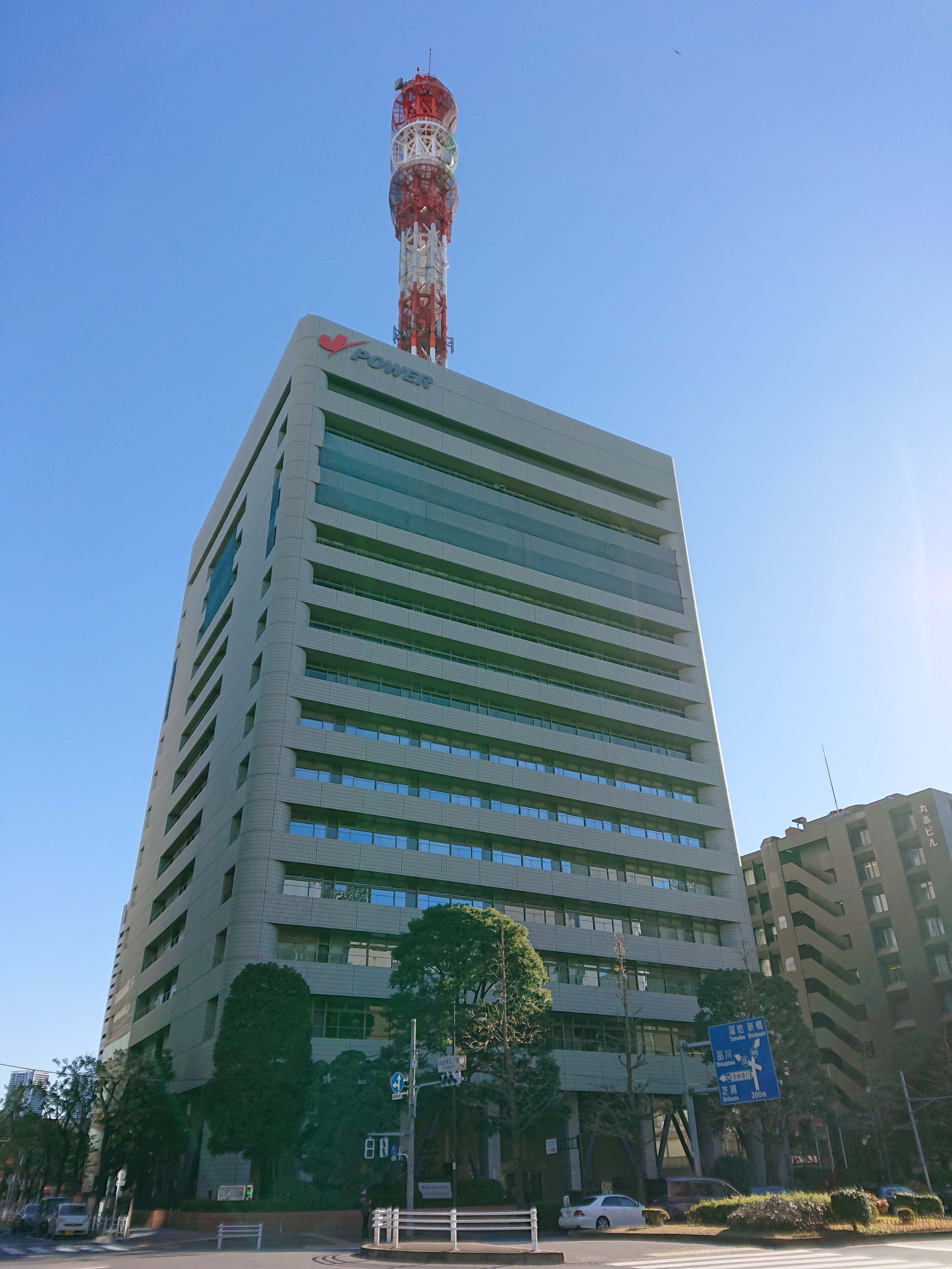 Denpatsu Building (でんぱつビル), located at 6-15-1 Ginza, Chuo, Tokyo, Japan